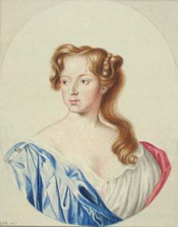 Elizabeth Seymour, Duchess of Somerset (26 January 1667–24 November 1722) was an English courtier and Whig politician.